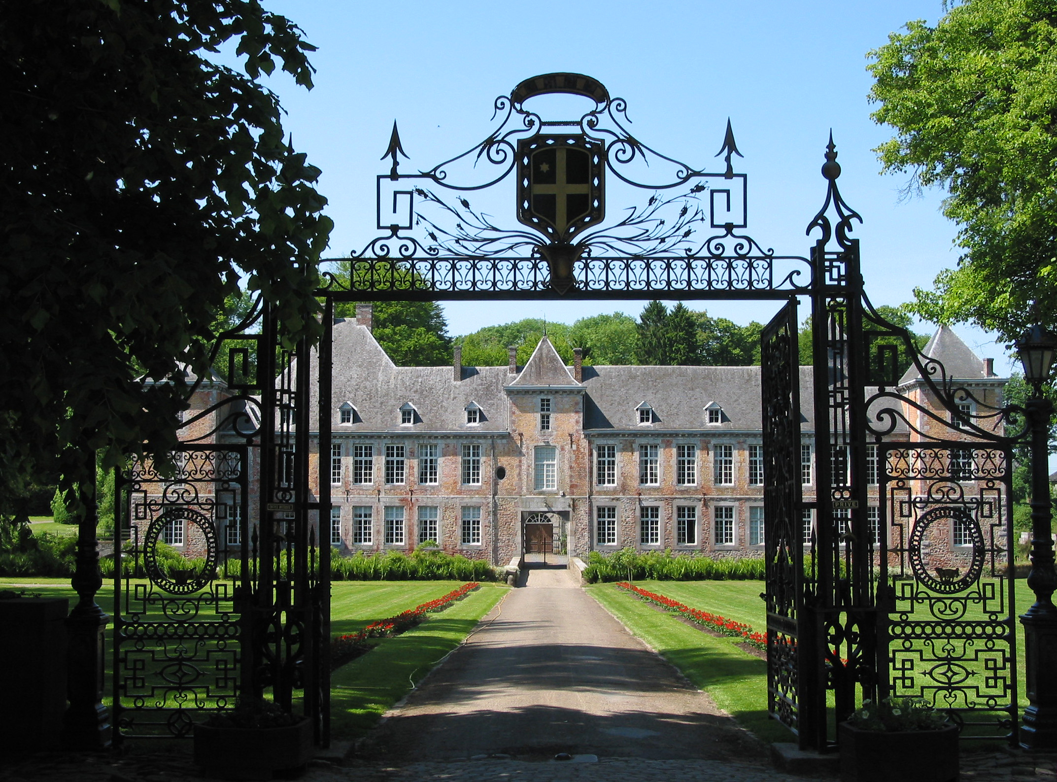 Haltinne (Belgique), the entry of the castle (1635).